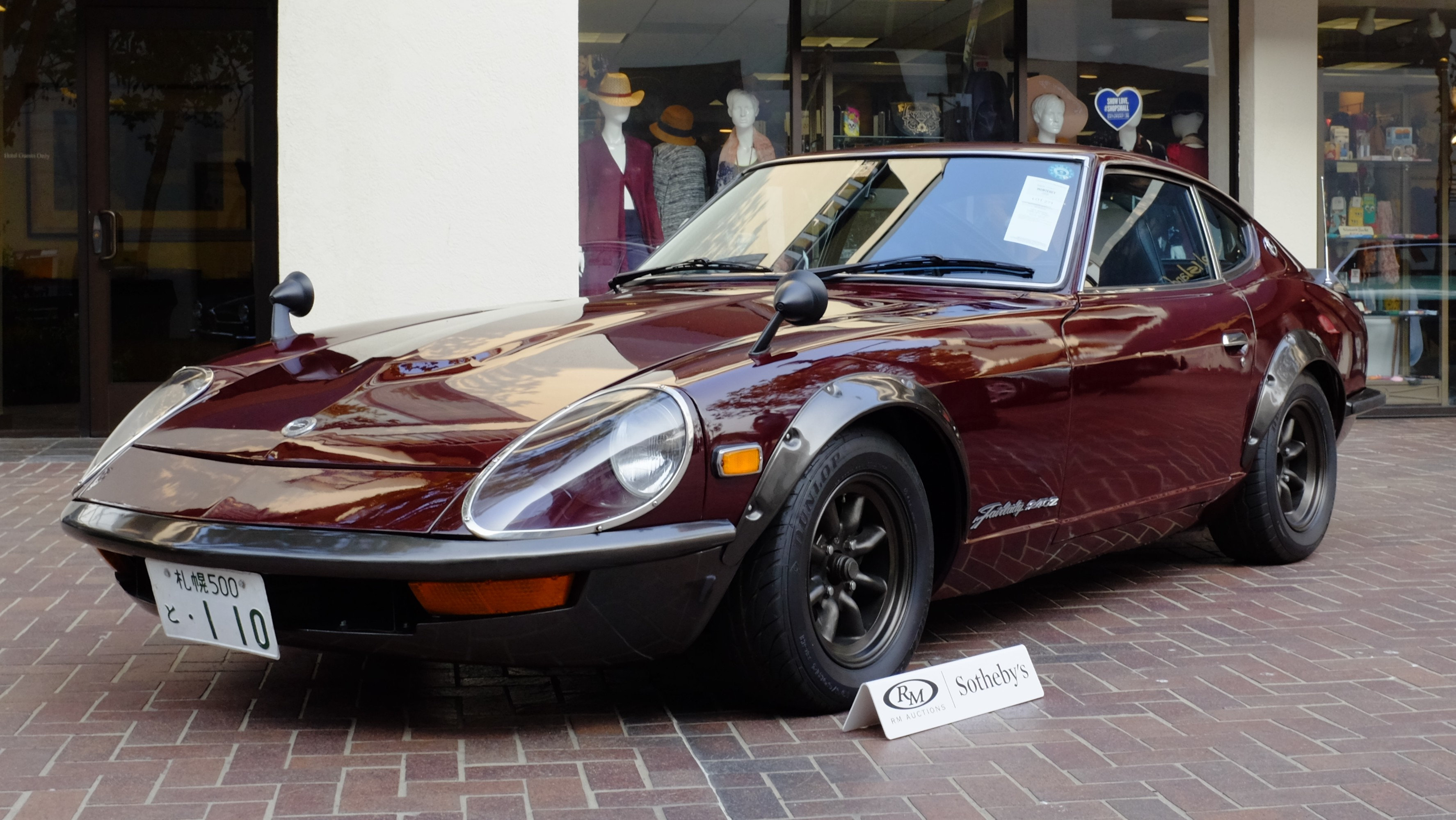 1972 Nissan Fairlady 240ZG on display at RM Sotheby's 2018 Monterey auction.